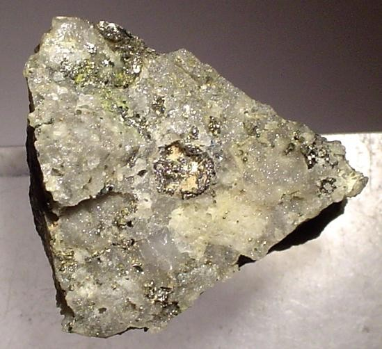 Tellurium Locality: Faţa Băii (Facebánya), Zlatna (Zalatna; Zalathna), Alba County, Romania (Locality at ) Size: 2.2 x 1.9 x 1.6 cm. Native tellurium is a RARE element and to find it well-crystallized is RARER still. This excellent thumbnail is RICHLY covered with bright tellurium microcrystals in quartz matrix from the Type Locality - Facebánya, Romania. CHOICE material from the Carl Davis Collection.